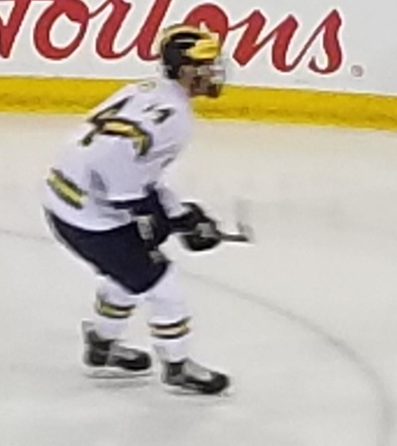 Vermont Catamounts at Michigan Wolverines (October 6, 2018)